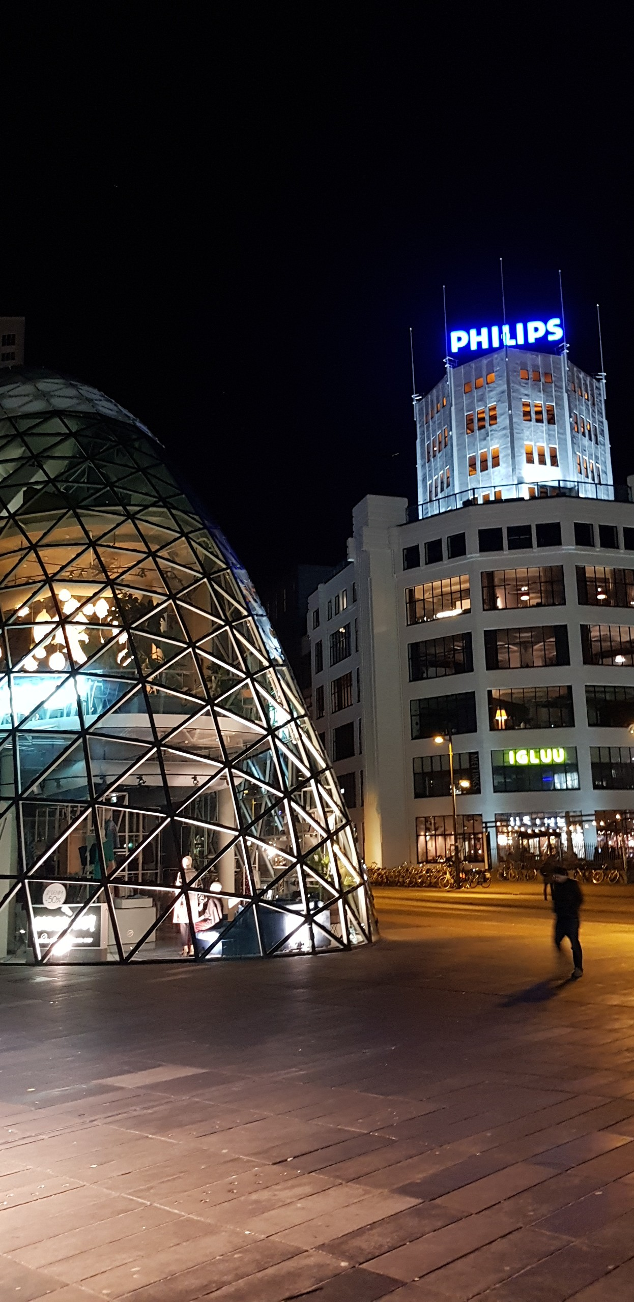 Philips Light tower, Eindhoven 2018